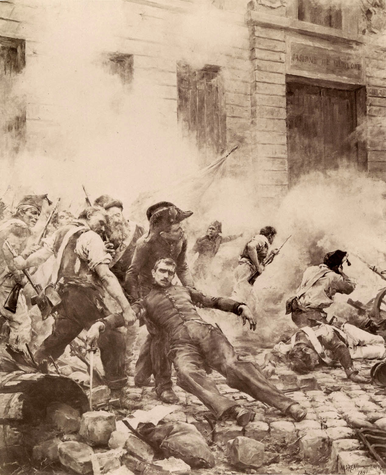 Painting by Georges Moreau de Tours, made in 1891, featuring the death of Louis Vaneau during the July Revolution in 1830.